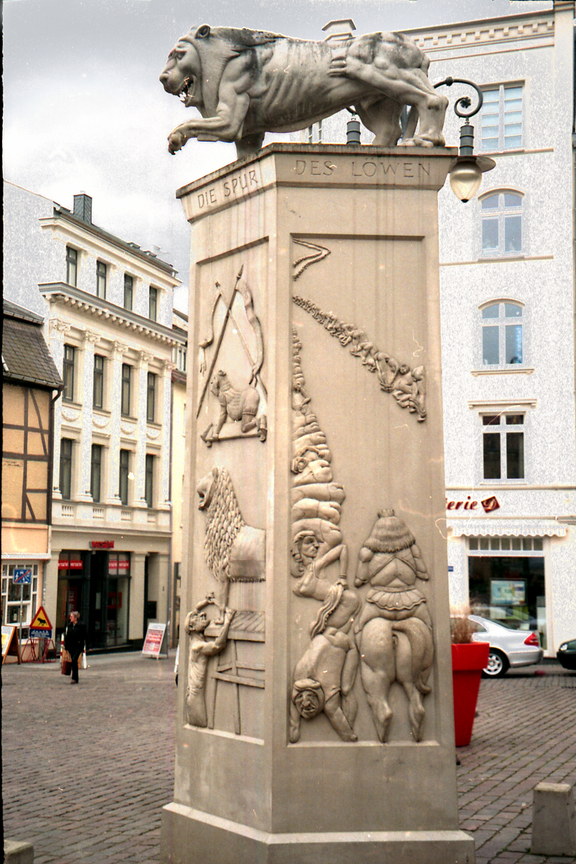 Lion memorial at market in Schwerin, Mecklenburg-Vorpommern, Germany